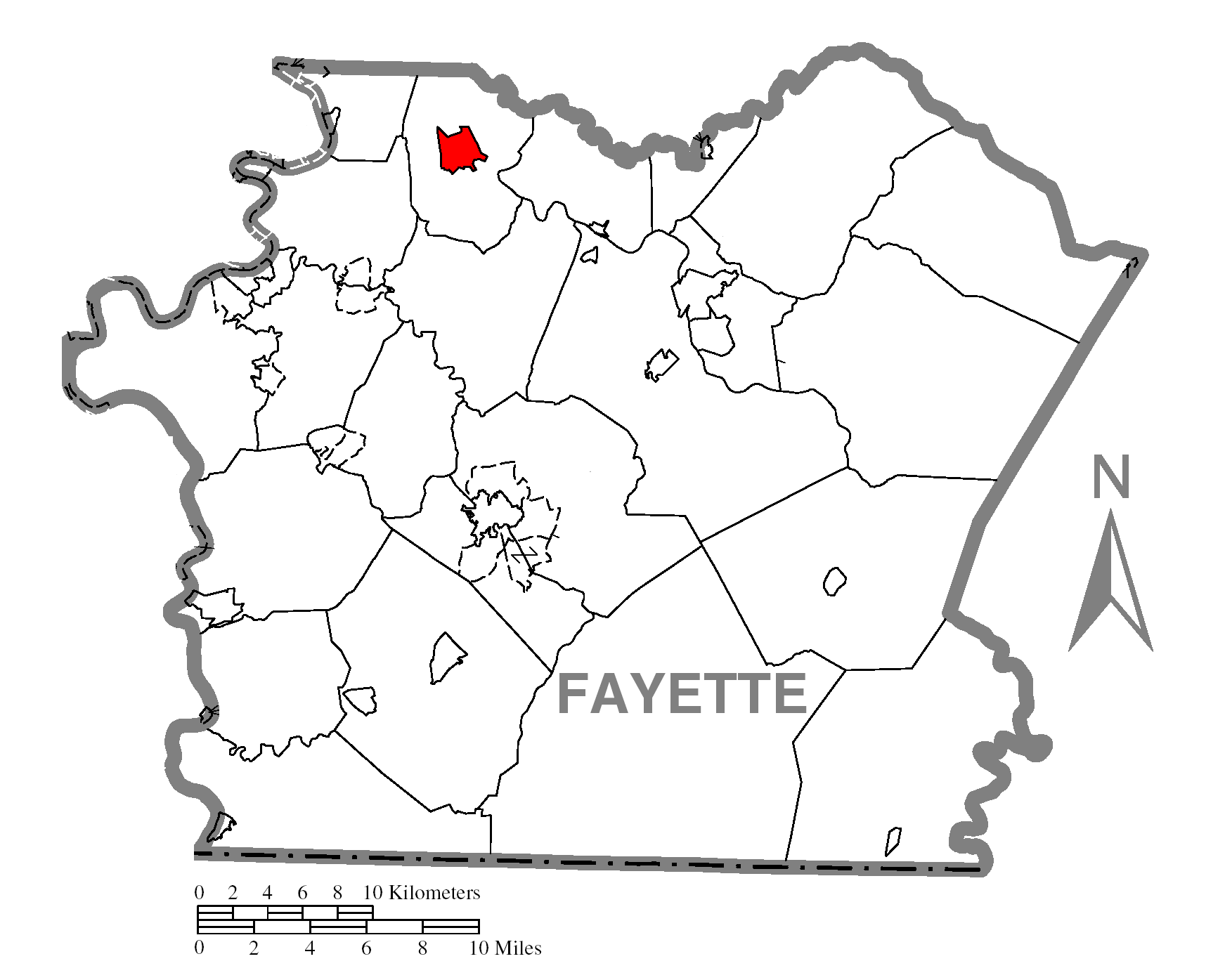 Map of Fayette County higlighting Perryopolis.